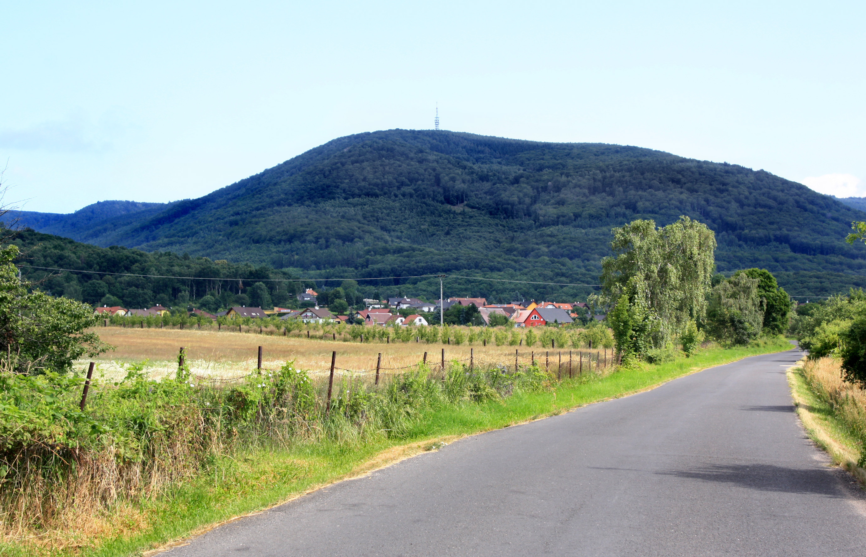 South view of Vysoká Pec village, Czech Republic